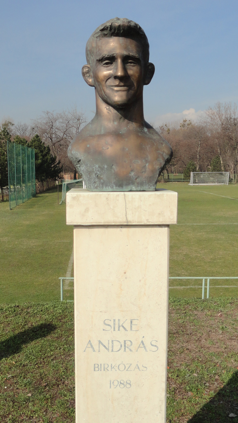 András Sike, hungarian wrestler. 1988 Summer Olympics - Gold Medal Winner